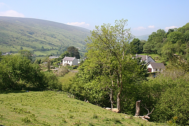 Glendun The trees mark the course of the Clady Burn as it flows down to Clady Bridge.